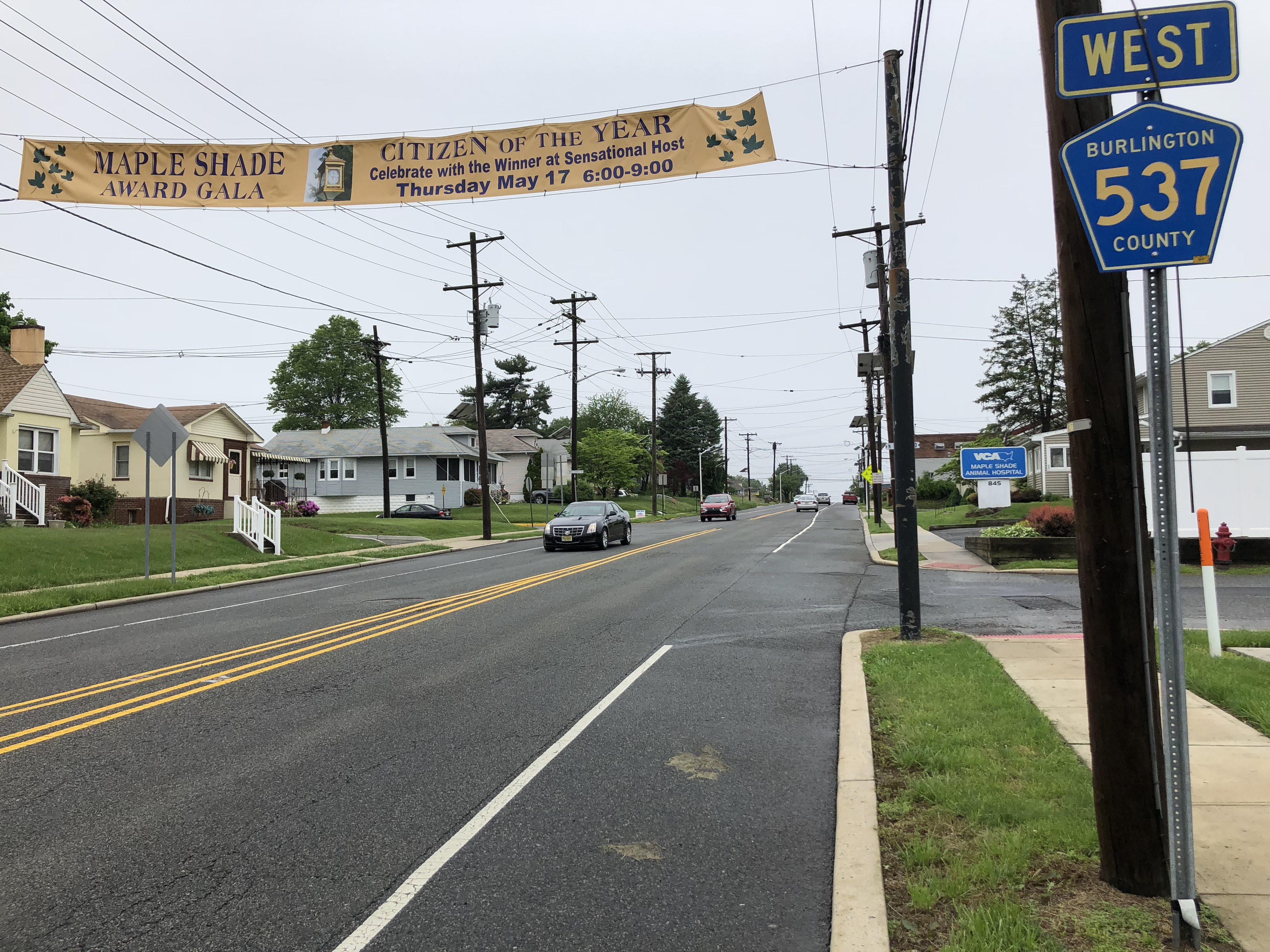 View west along Burlington County Route 537 (Main Street) at Boulevard Avenue in Maple Shade Township, Burlington County, New Jersey